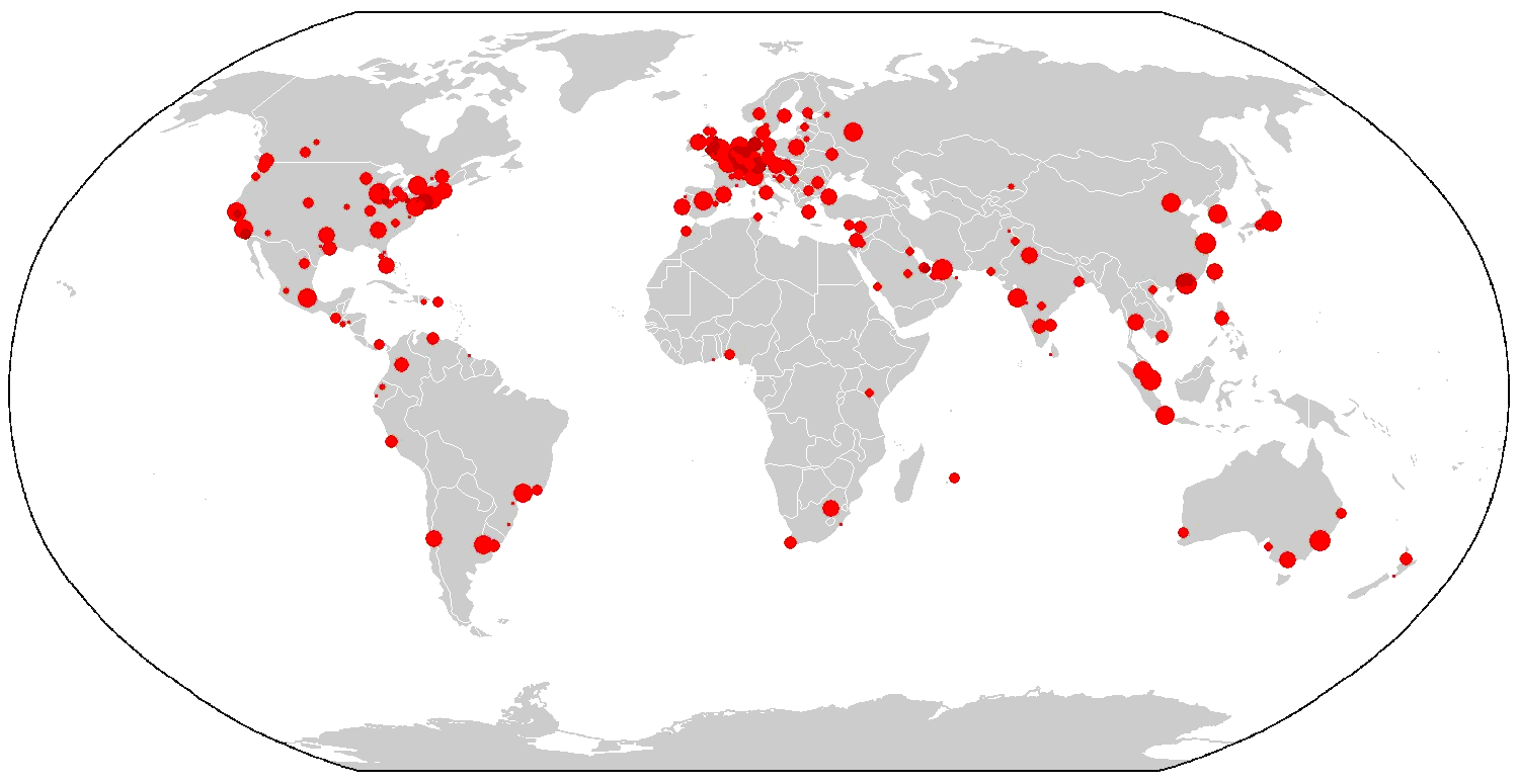 A map showing the distribution of GaWC-ranked "world cities."